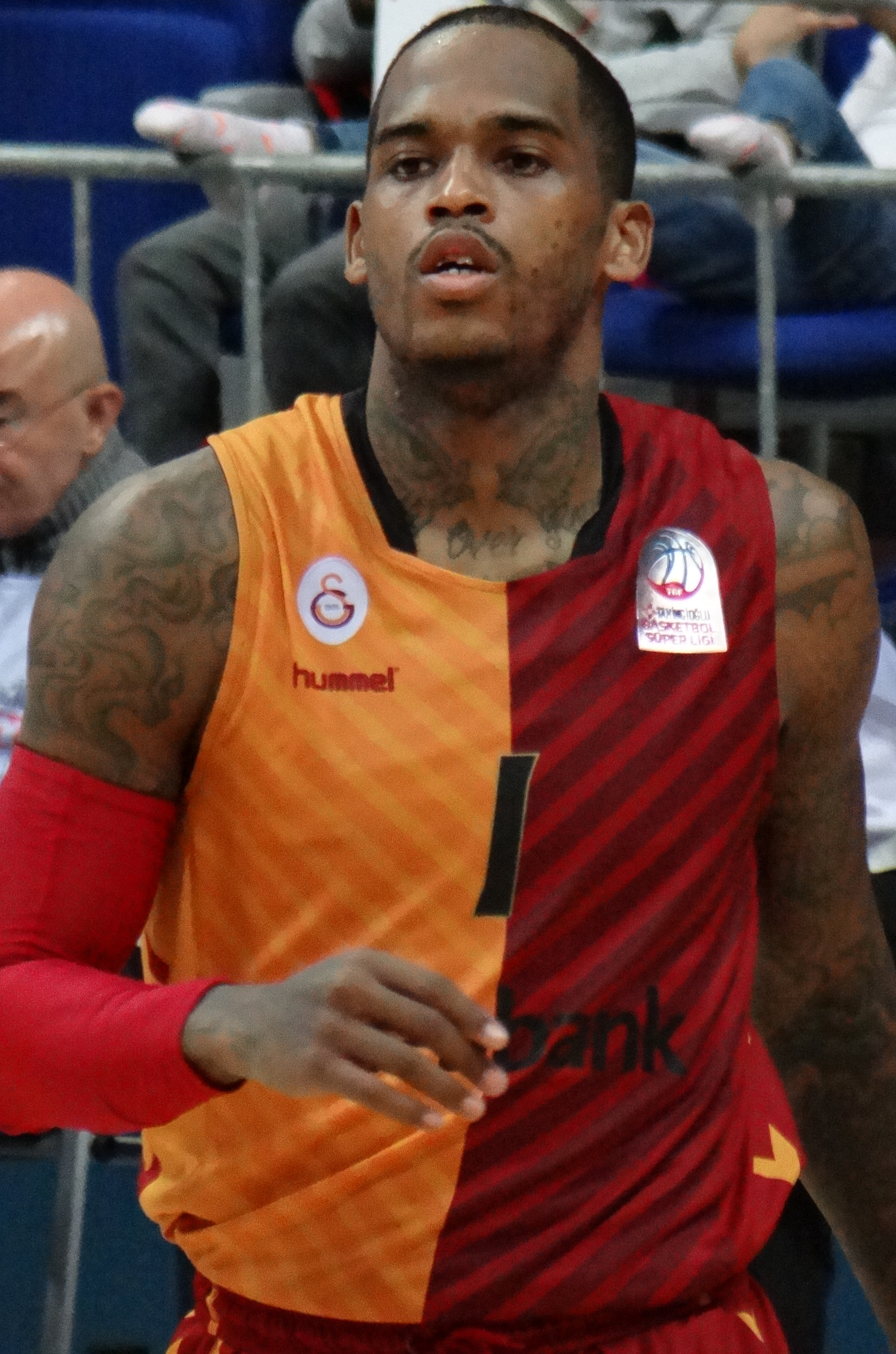 Dwight Hardy Fenerbahçe Men's Basketball vs Galatasaray Men's Basketball TSL 20180304